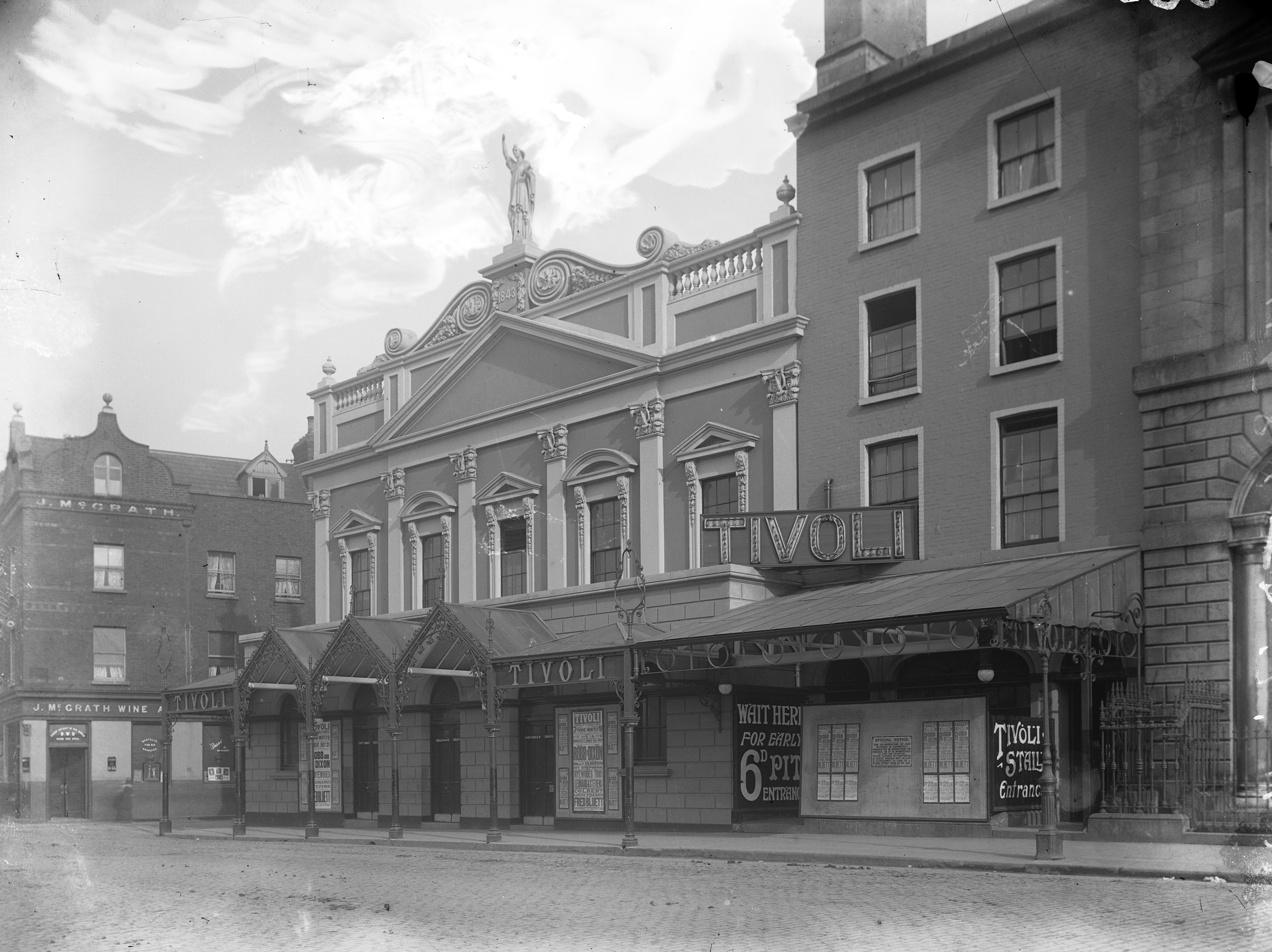 A lovely clear shot of the Tivoli Theatre of Varieties on Dublin's Burgh Quay, with blessedly clear posters showing the bill of fare… Photographer: Robert French of Lawrence Photographic Studios , Dublin Date: Circa Monday, 31 May 1915 (which rather gives the lie to perceived wisdom that the latest date for any of our Lawrence Collection photographs is 1914!) NLI Ref.: L_ROY_11588